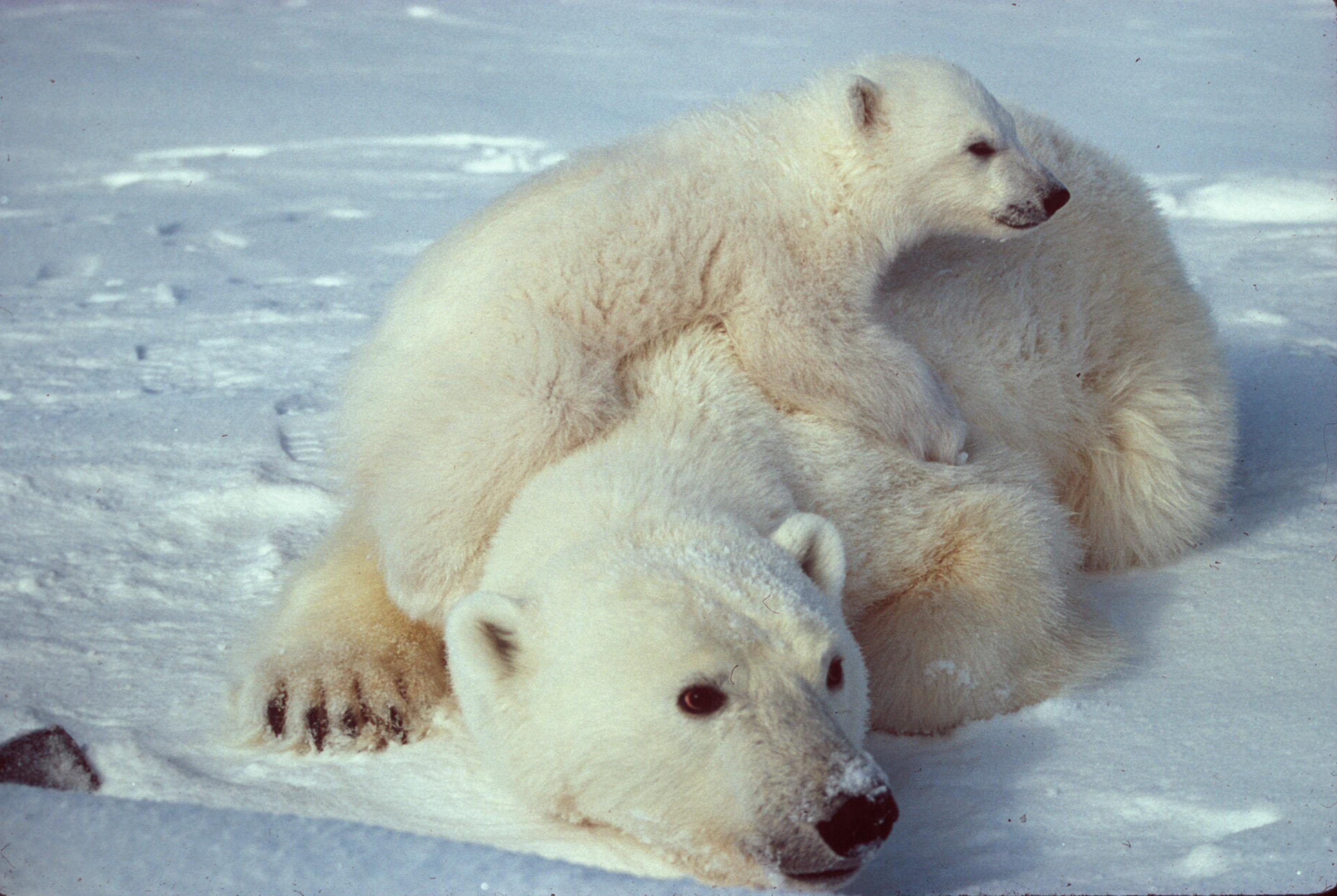 Ursus_maritimus_Polar_bear_with_cub.jpg, with color correction and cropping